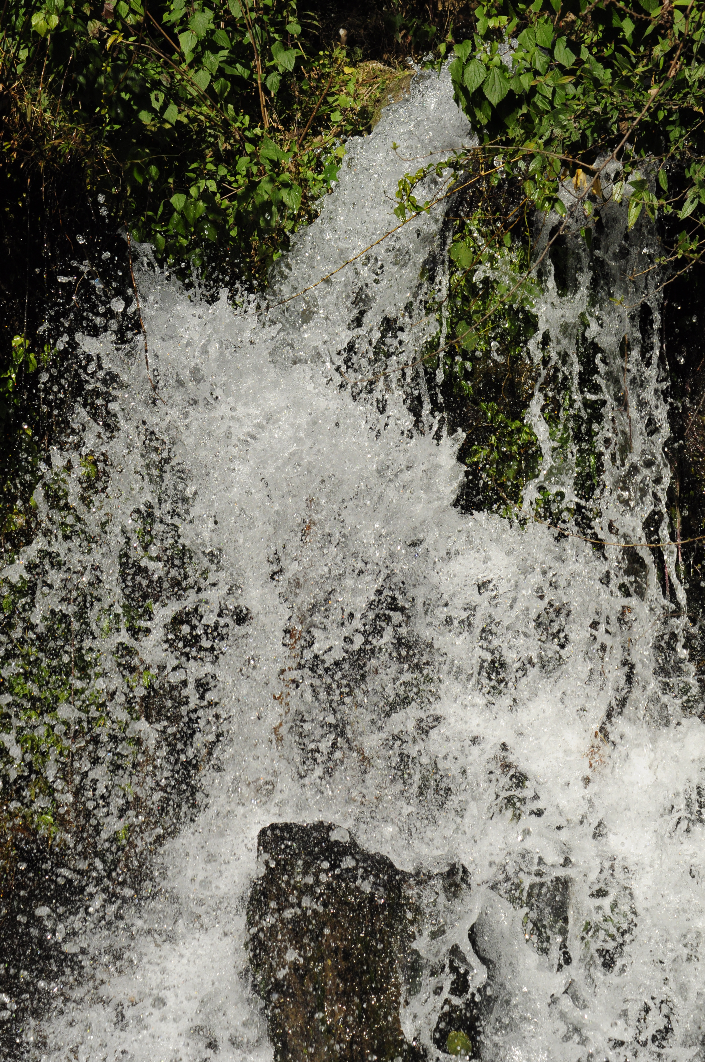 View of Bagmati River from Sundarijal VDC Bagmati River